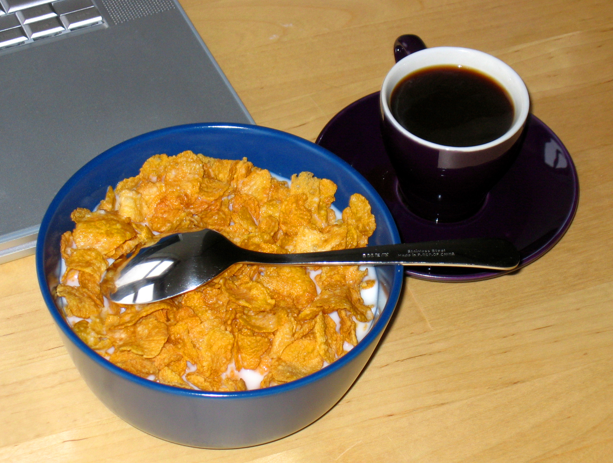 Cornflakes and pseudo-espresso (really just very strong coffee, made in a moka pot).